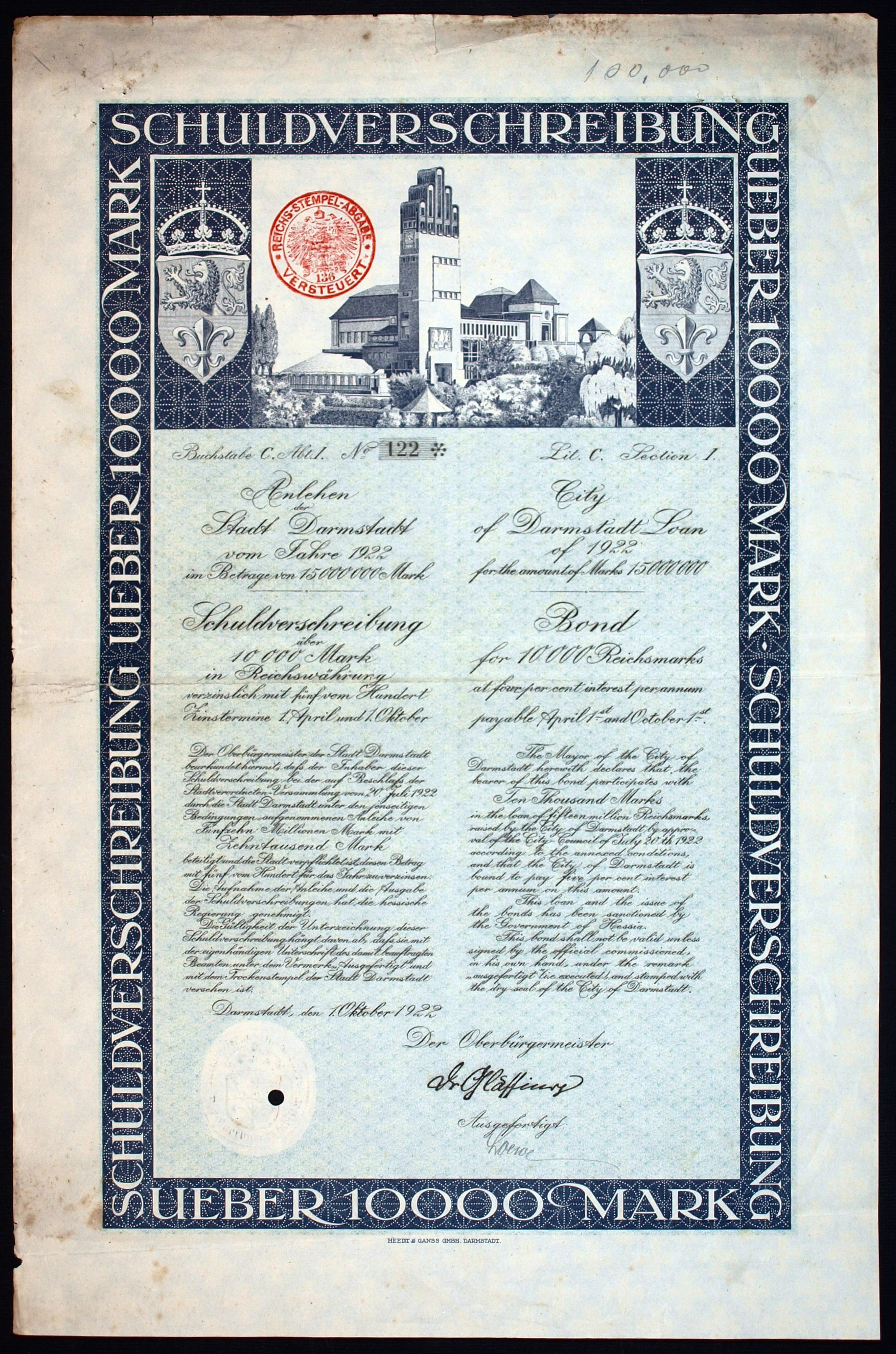 Bond of the City of Darmstadt, issued 1. October 1922